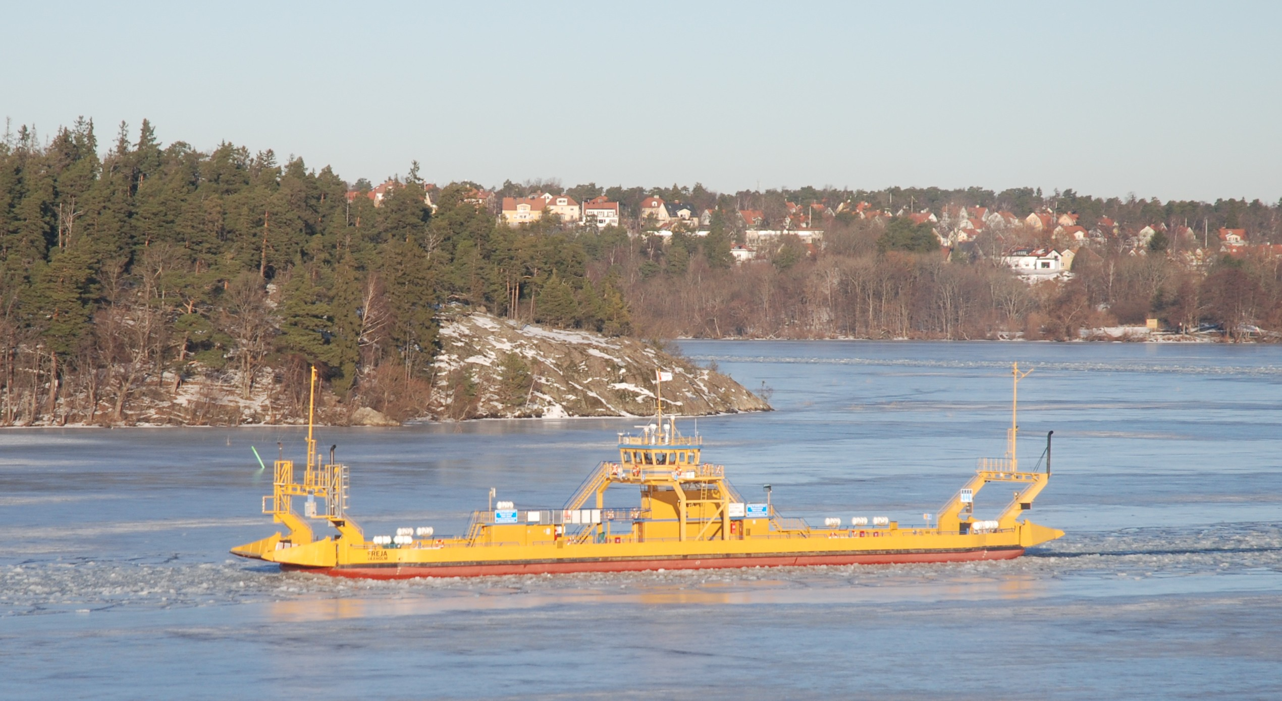 Swedish car ferry M/S Freja, owned by Trafikverket, outside Björnholmen at lake Mälaren, between Stockholm and Tyska botten, Sweden